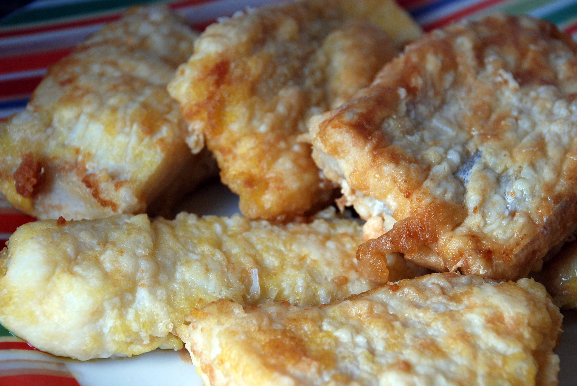 Battered cod fish in Spain.